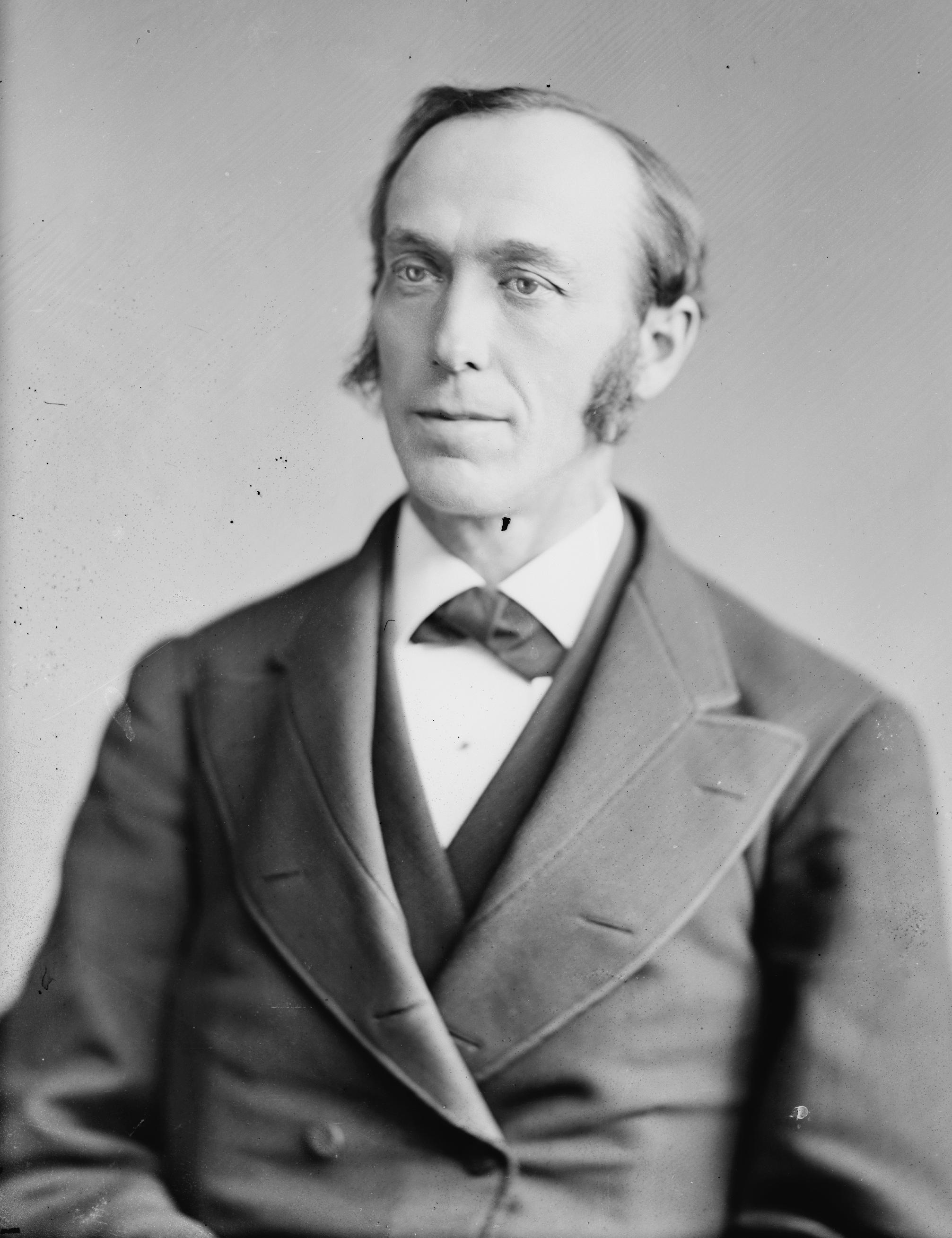 Thomas C. Platt. Library of Congress description: "Platt, Hon. Thos. C. Senator of N.Y.".